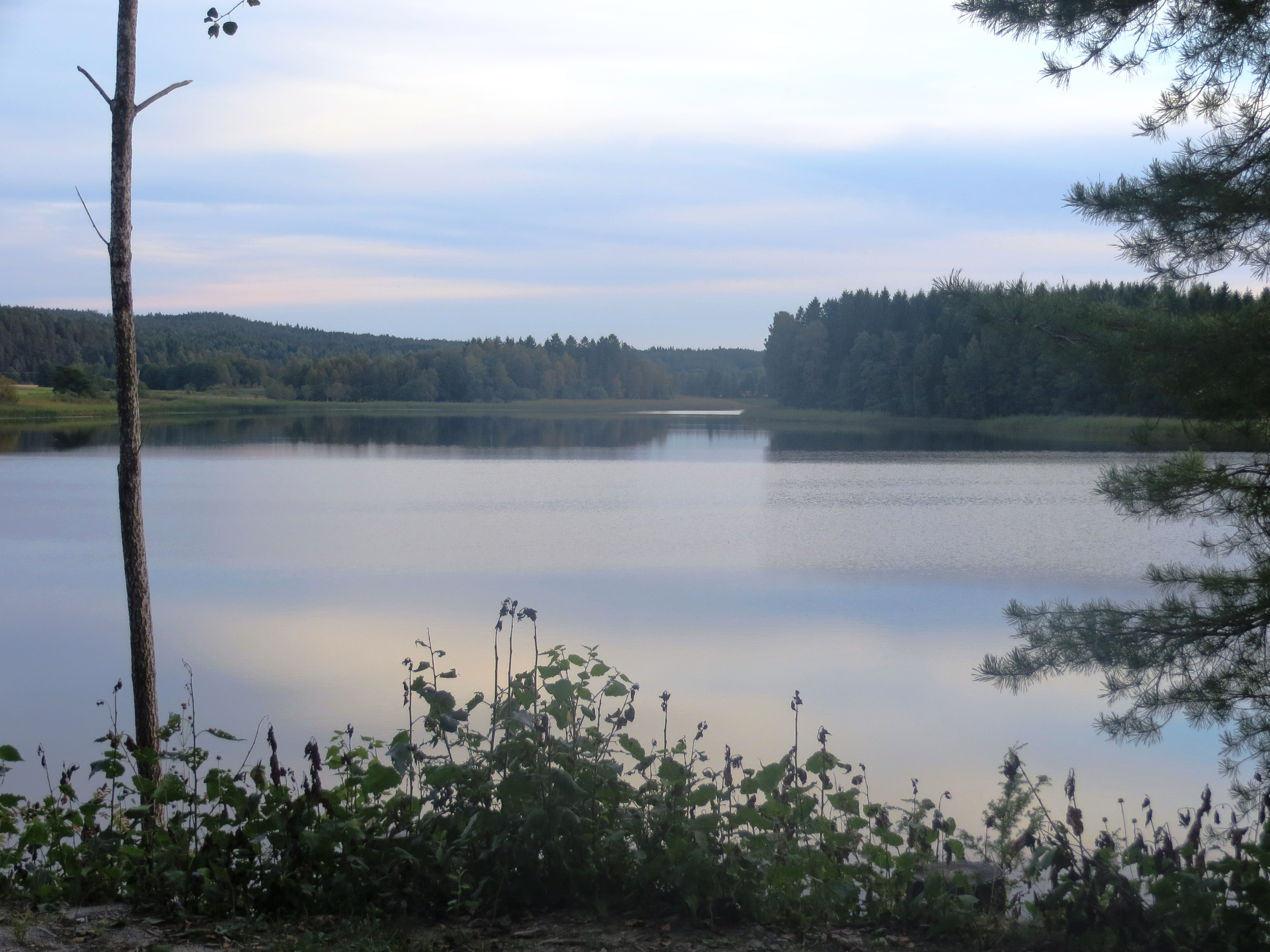 Image from the municipality of Sarpsborg in Østfold county - southeastern Norway.